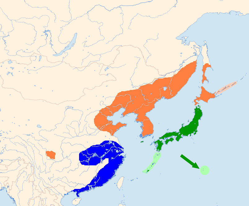 Lanius bucephalus: Range Map